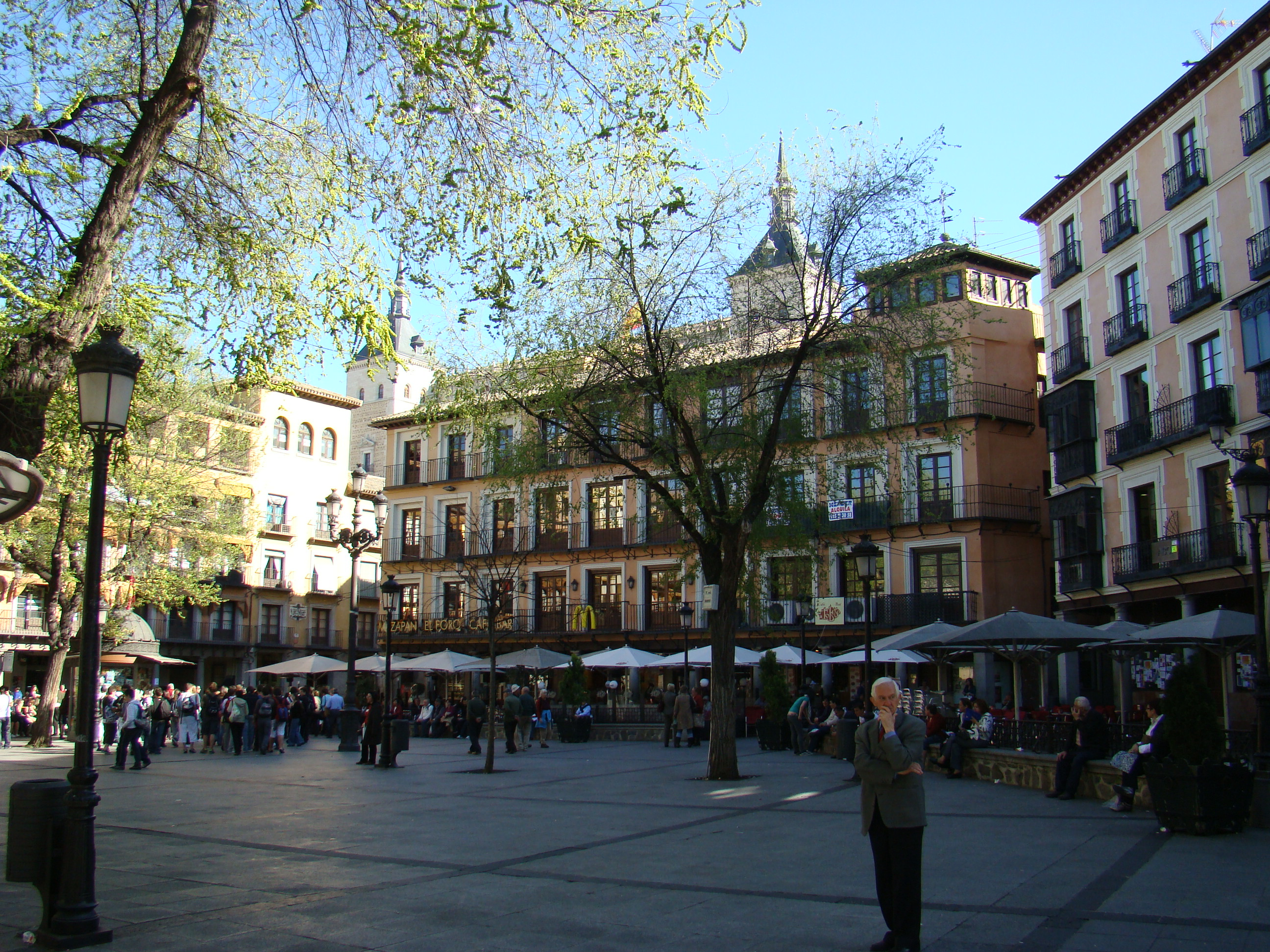 Zocodover square in Toledo, Spain.